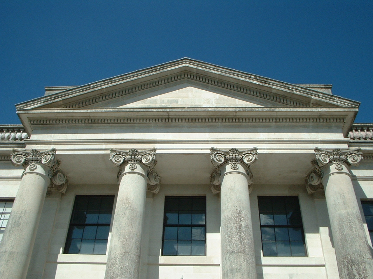 Detail of Portico and Ionic columns at Castle Coole, County Fermanagh, Northern Ireland. Picturumphreys, April 21st 2006.